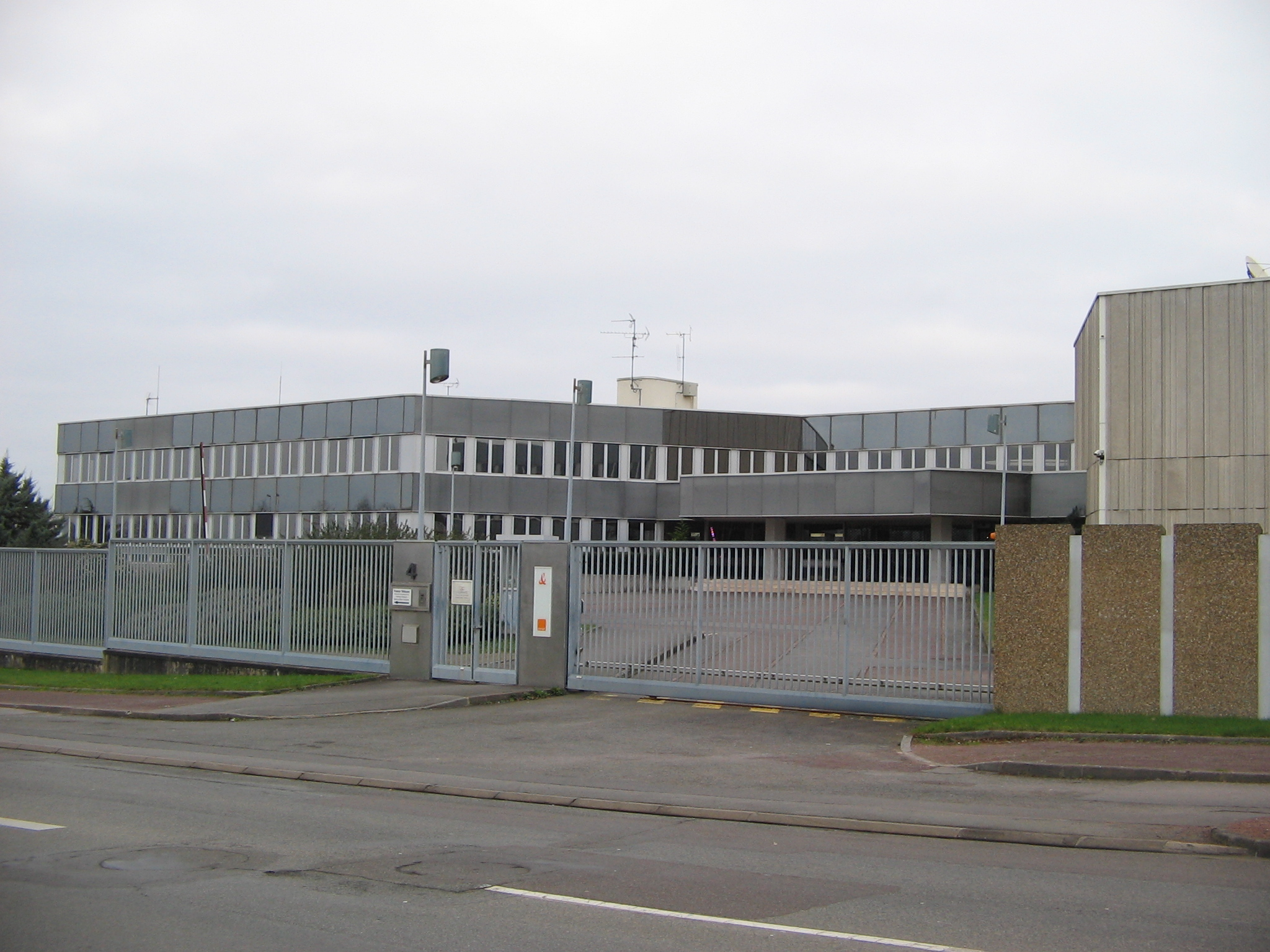 Orange Labs (France Télécom R & D) , Cesson Sévigné, France